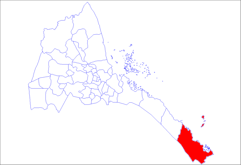 Other version:Original red area was moved to the other area.